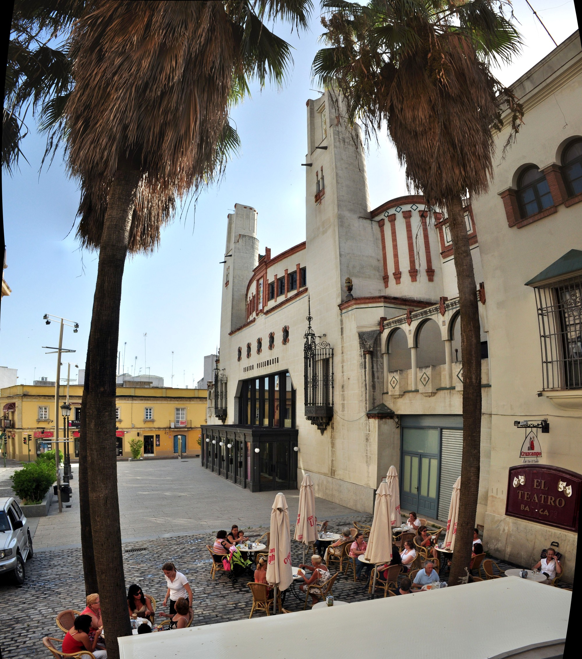 Theathre Villamarta, Jerez